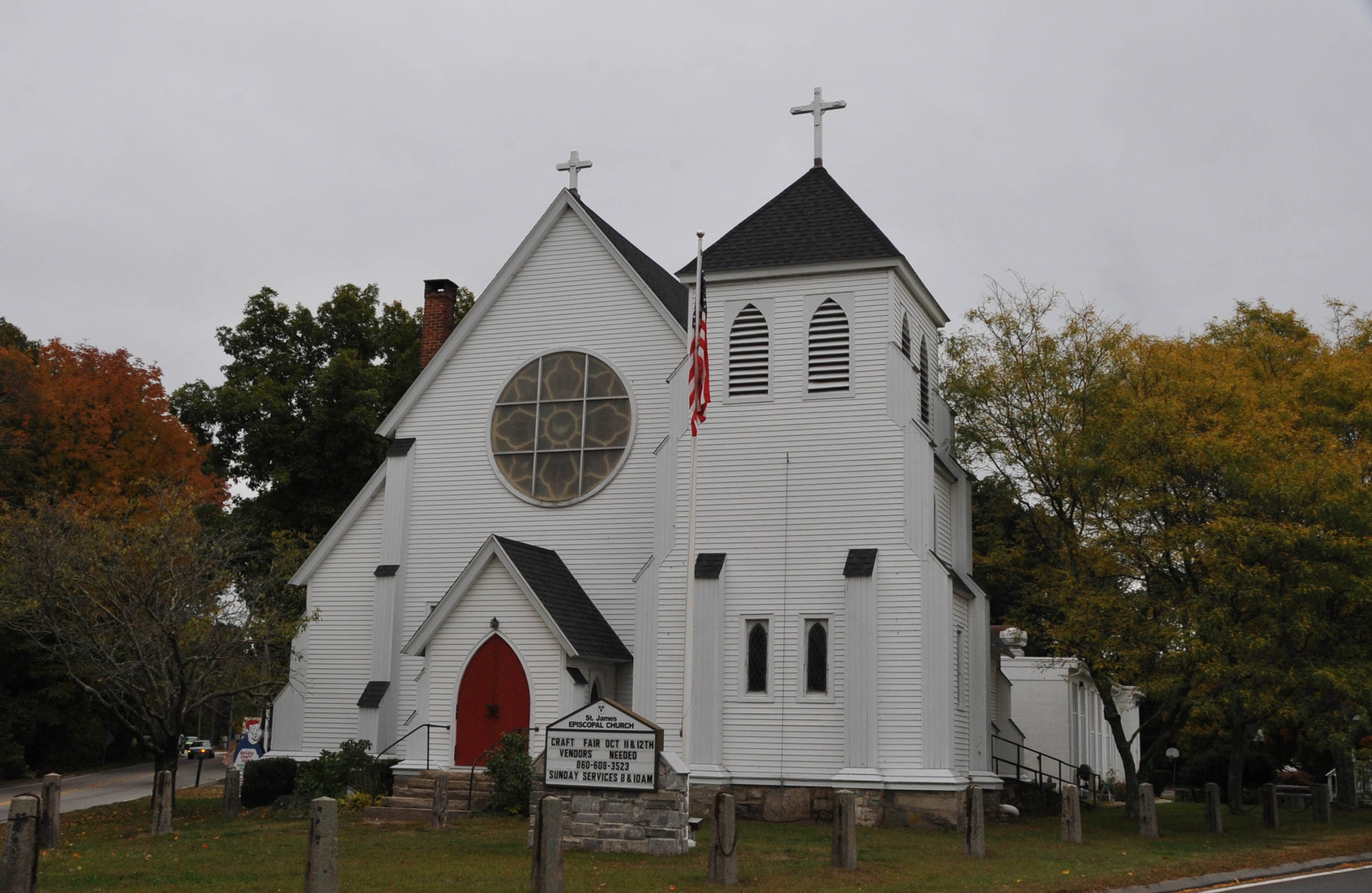 ST. JAMES CHURCH, 1896 GOTHIC REVIVAL